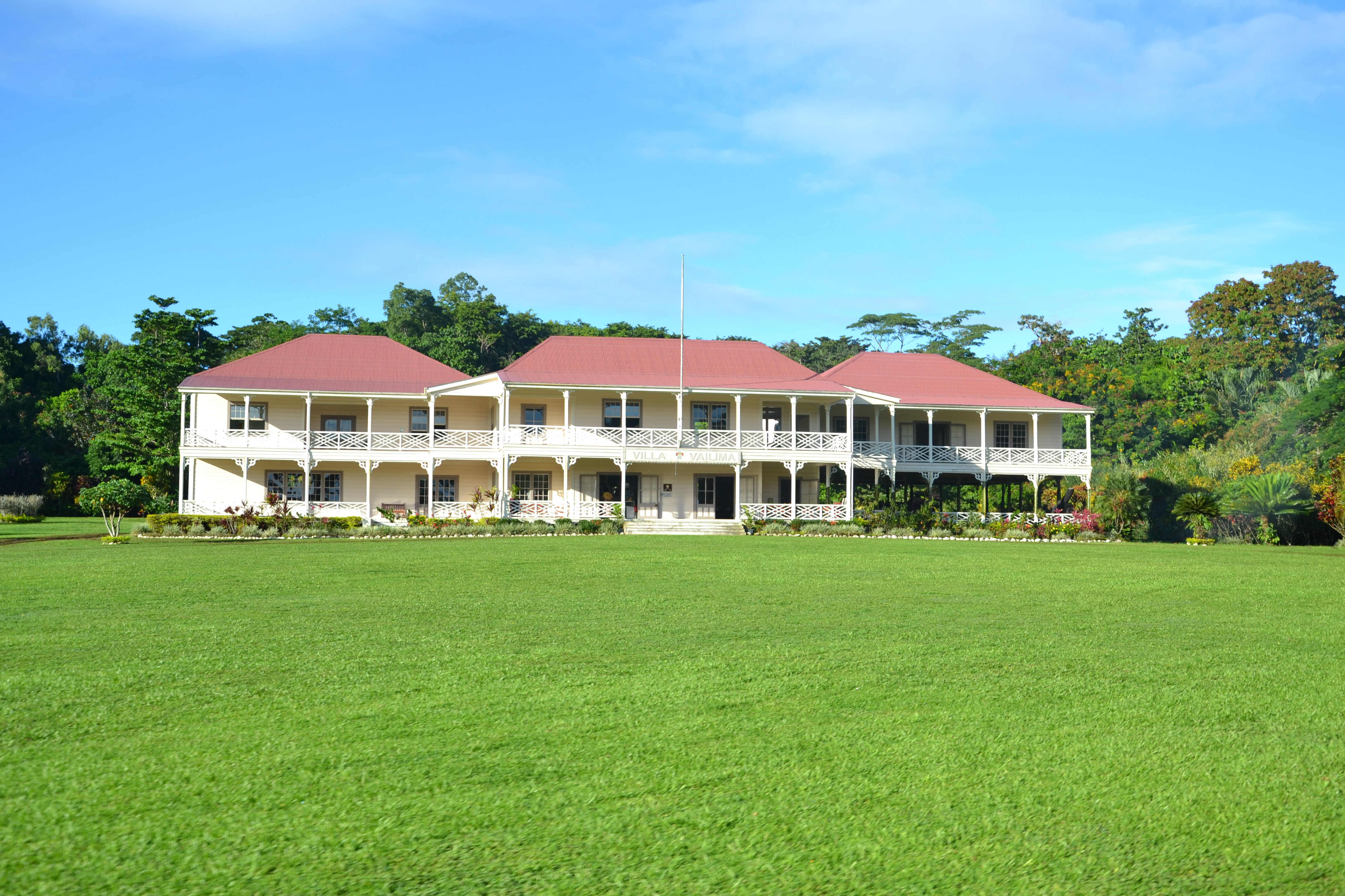 The Robert Louis Stephenson museum outside Apia, Samoa